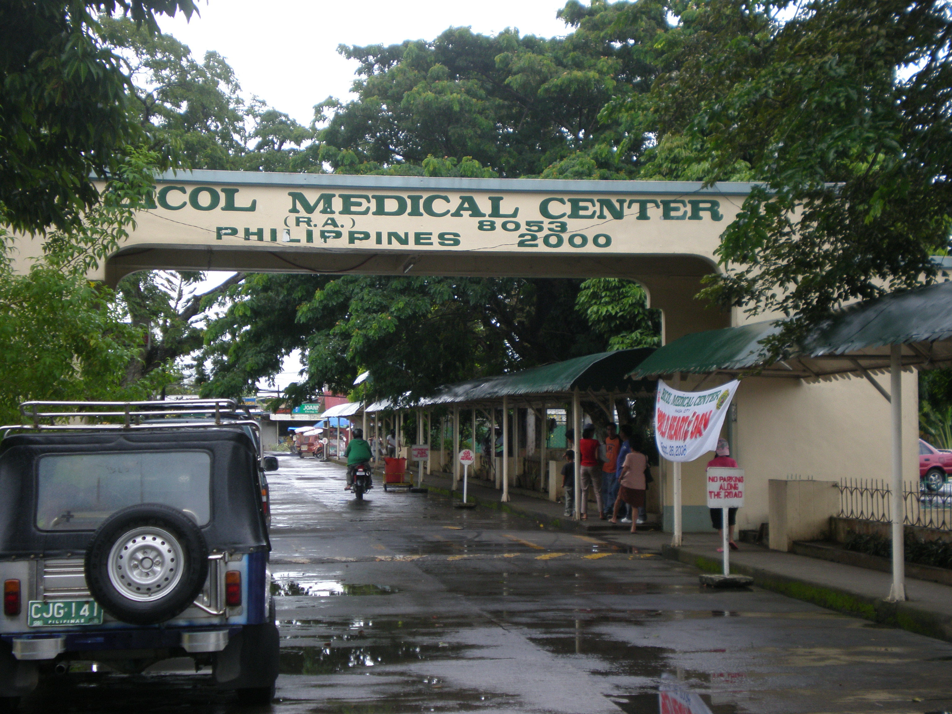 Bicol medical center is the only DOH medical center in the whole Bicolandia it is located in the city of Naga in the province of Camarines Sur